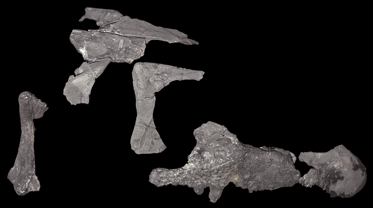 Fossil in the Oxford University natural history museum